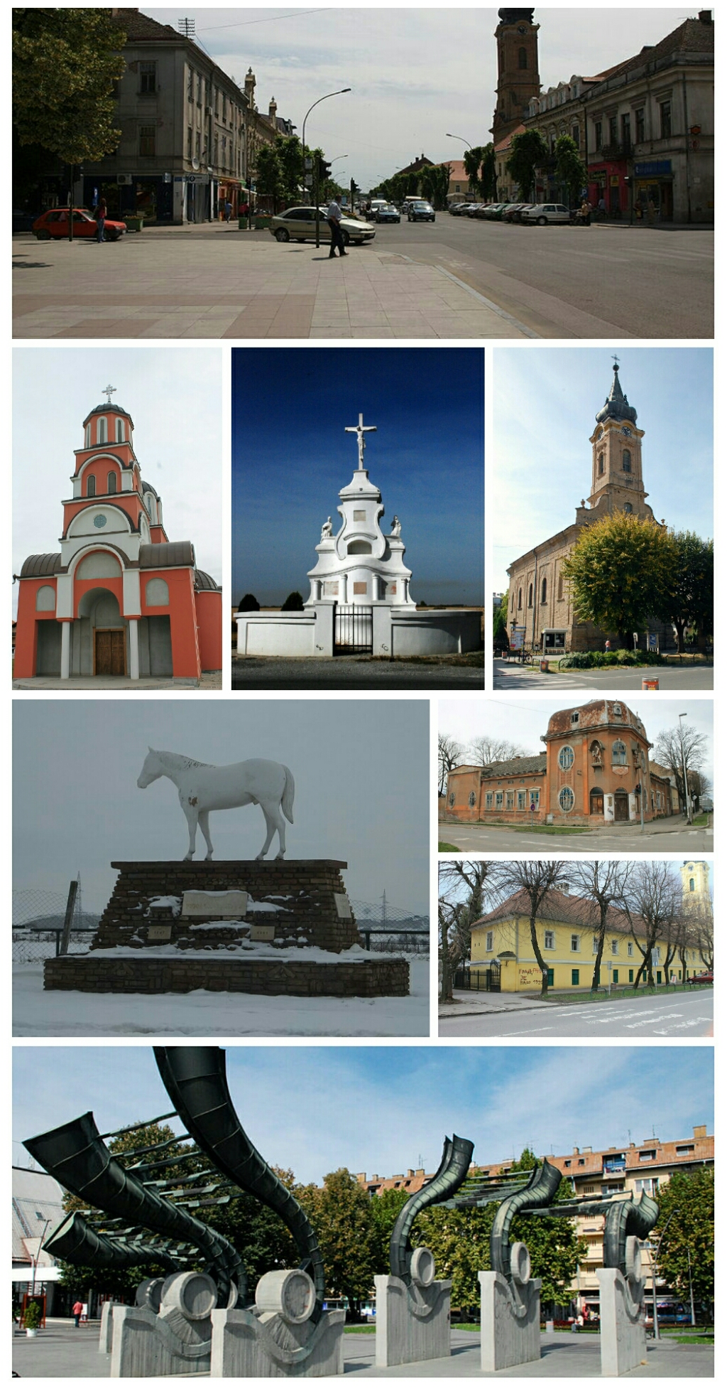 Ruma- photomontage (Downtown, New Orthodox Church, One of the two statues of the monument to the plague, Roman Catholic Church, Monument to a horse, The old building of the Yugoslav People's Army, Museum building, Monument of the Revolution)